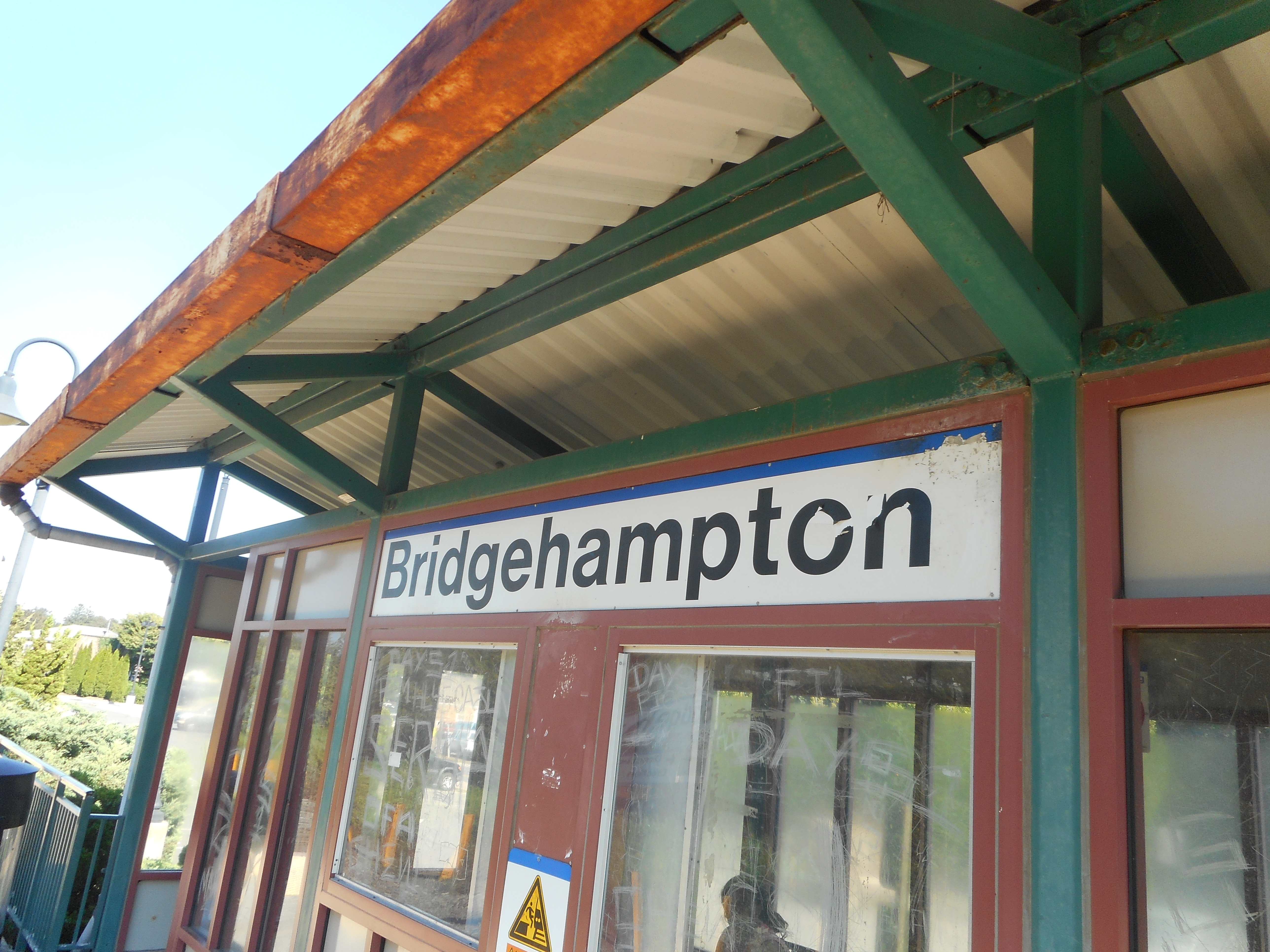 The enclosed shelter covered with graffiti and scratch-itti along the platform of the Bridgehampton (LIRR station) on Maple Lane in Bridgehampton, New York. This platform has no doors, though. Further details and a possible rename to come later.